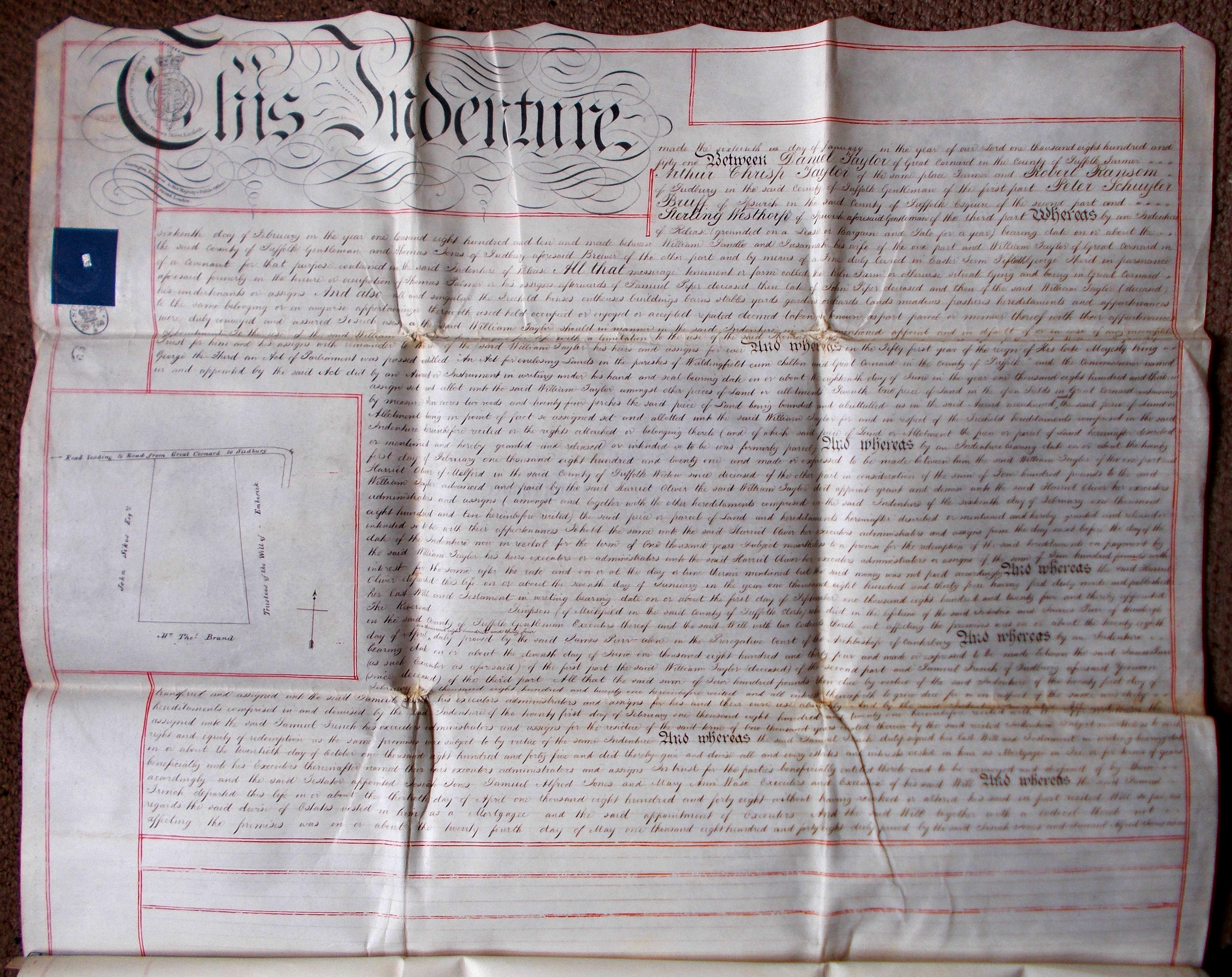 Peter Bruff, railway engineer, worked on the Colchester to Sudbury line, including the Chappel Viaduct, between 1847 and 1849. This parchment (page 1 of 3) illustrates his land purchases in the neighbourhood of the Sudbury terminal in 1850-51, as the line was opened. Original in uploader's ownership.